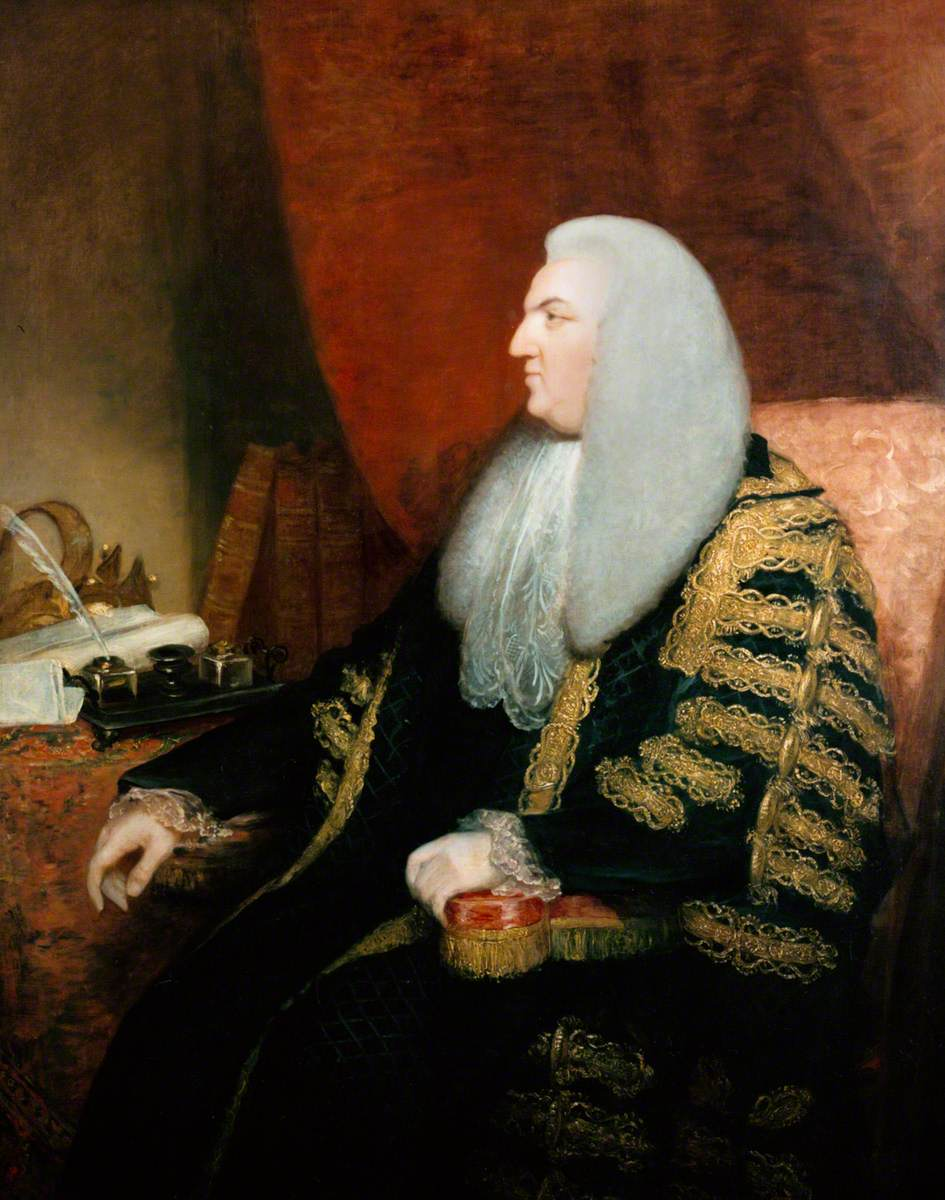 Fletcher Norton (1716-1789), Speaker of House of Commons 1770.